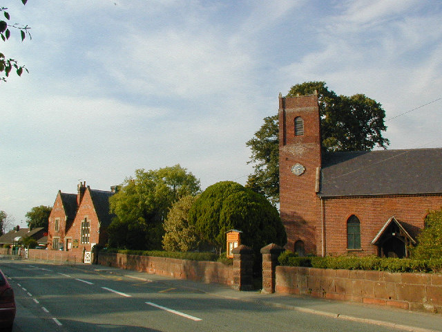 Cockshutt village. Church, primary school and post office in this small village astride the A528 Shrewsbury to Ellesmere Road. Church is 18th century brick built.